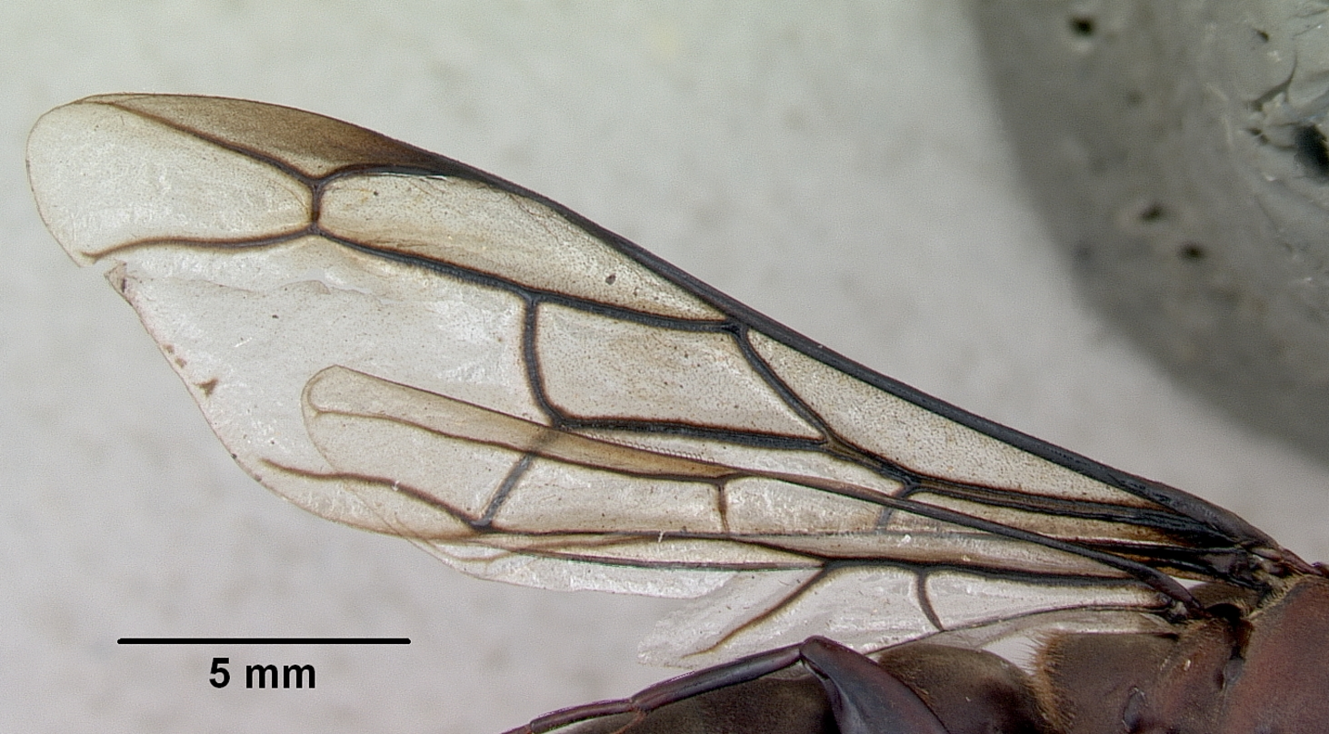 Profile view of ant Dorylus nigricans specimen casent0172641.